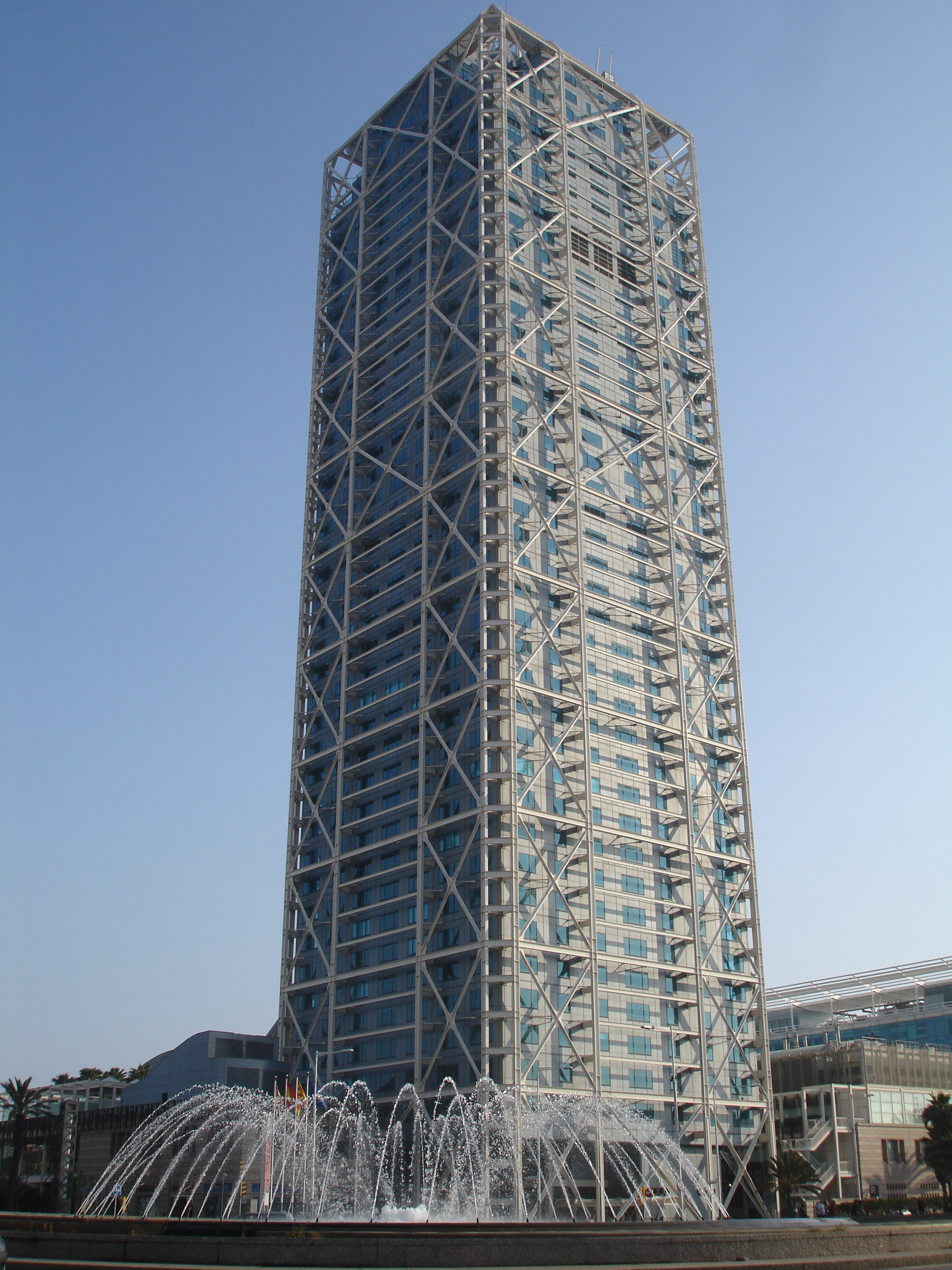 The Hotel Arts skyscraper close to Port Olimpic (Barcelona, Catalonia, Spain).